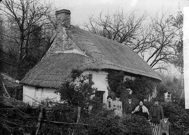 1 negative : glass, dry plate, b&w ; 12 x 16.5 cm.